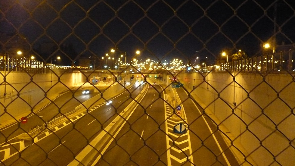 The picture depicts the Attiki Odos turnpike.